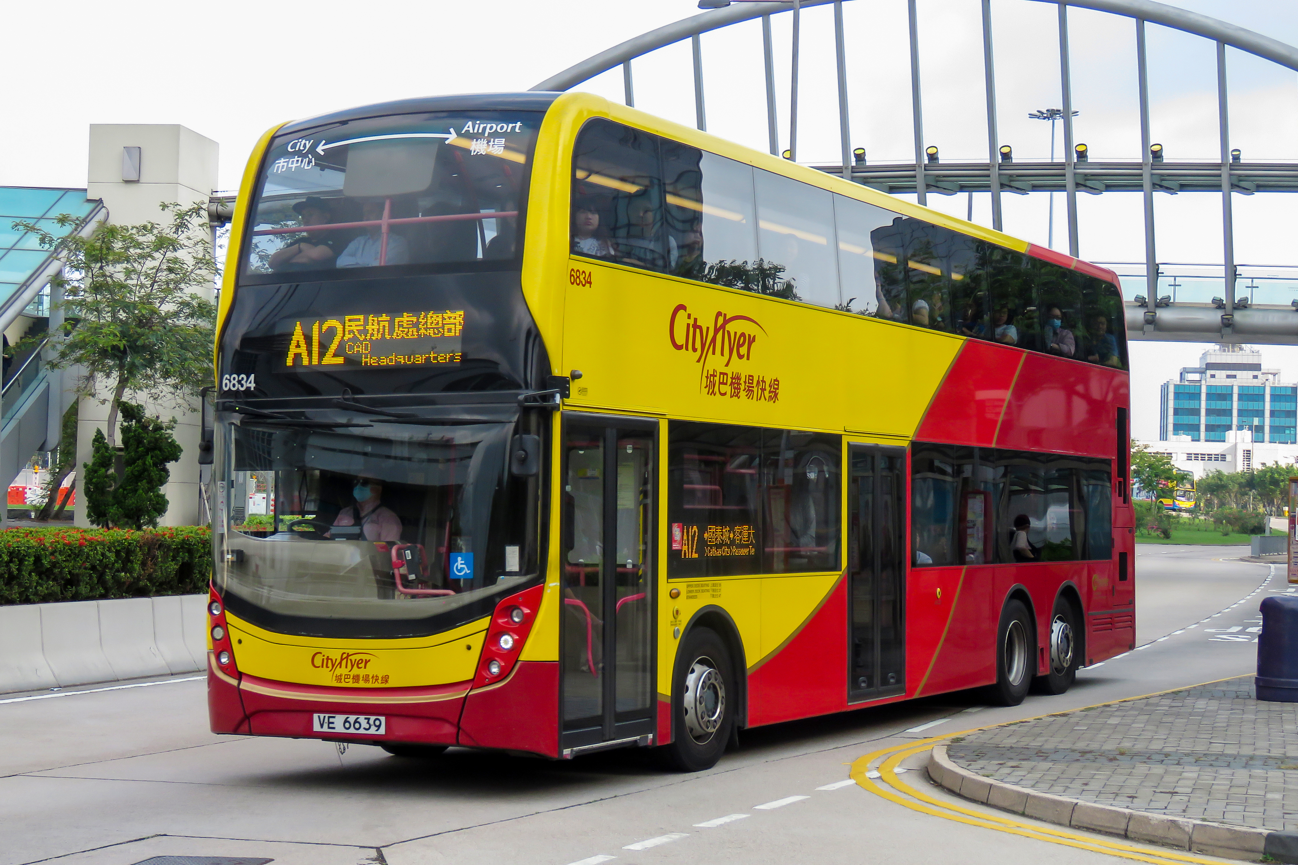 On weekdays, three A12s head for the Civil Aviation Department via Cathay City, Terminal 1 and Terminal 2. These special services depart from Siu Sai Wan at 6:50, 7:10 and 7:30.